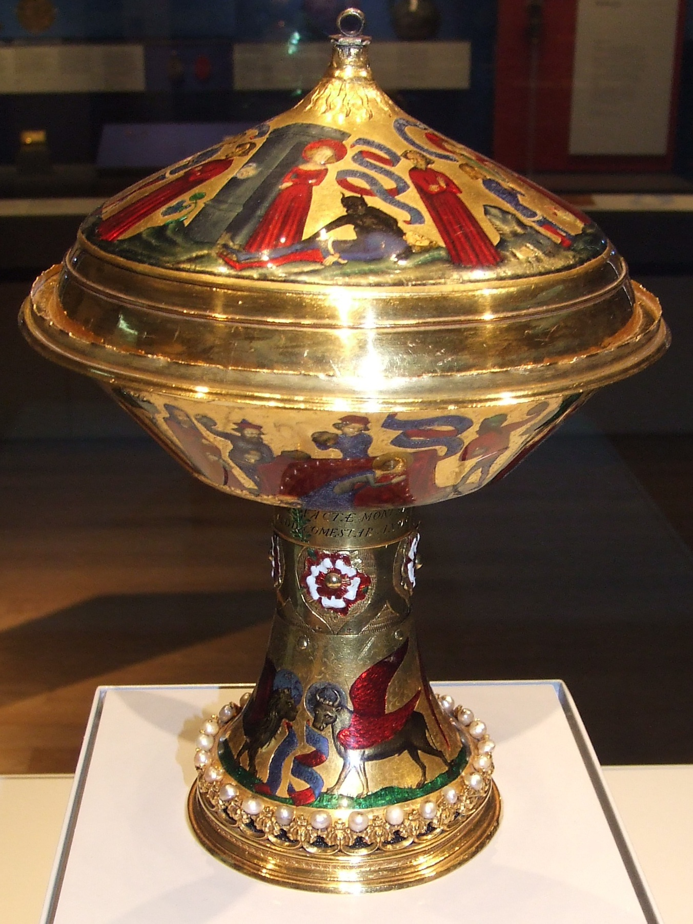 The Royal Gold Cup, from rm40 at the British Museum. Photo taken with flash.